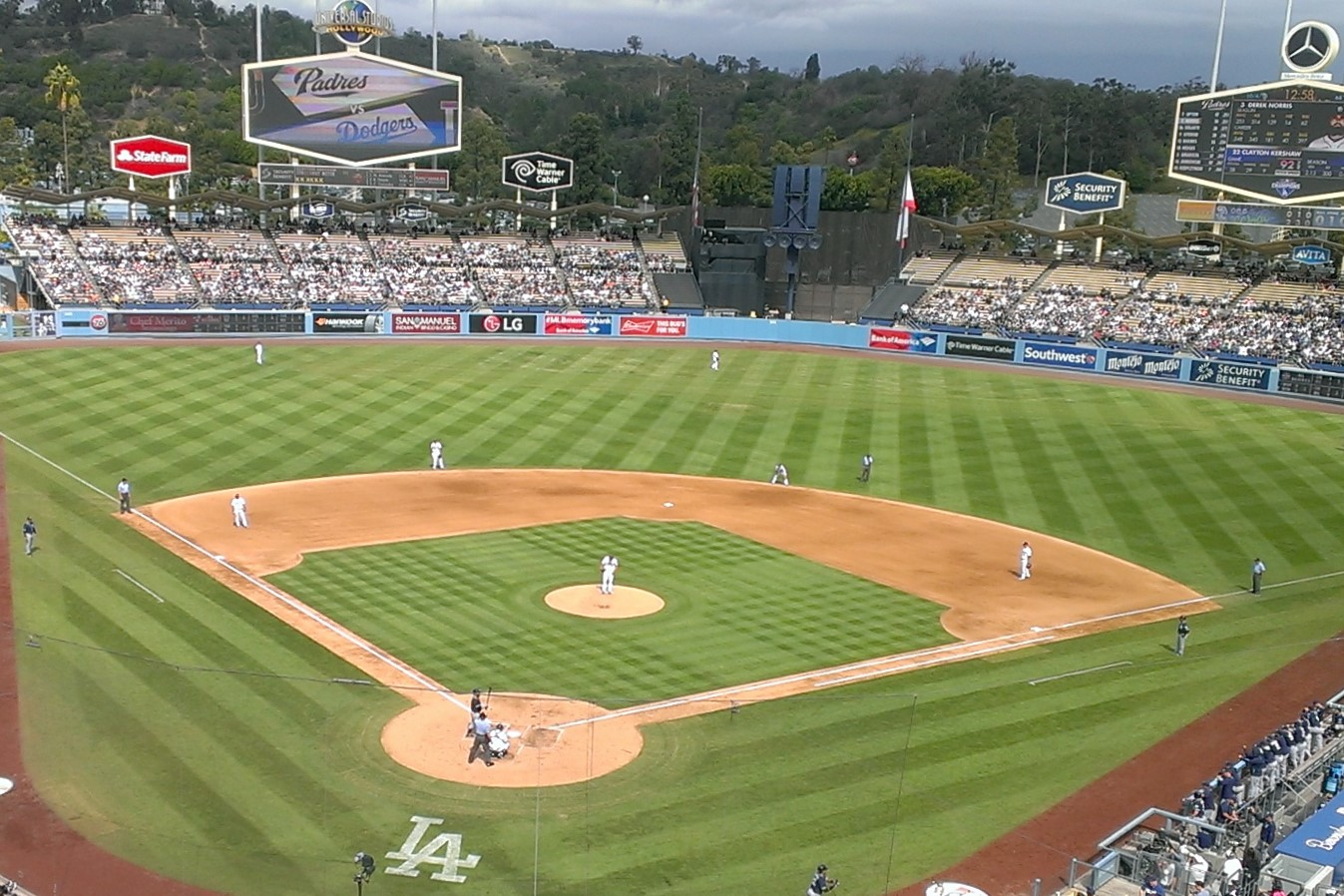 Dodger Stadium viewed from the upper deck.